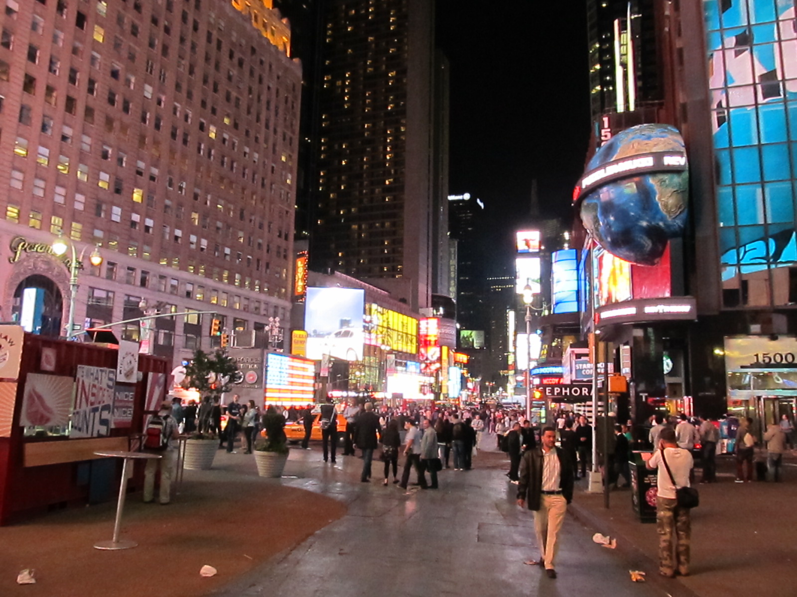 Times Square is a major commercial intersection in Midtown Manhattan, New York City, at the junction of Broadway and Seventh Avenue and stretching from West 42nd to West 47th Streets. Times Square – iconified as "The Crossroads of the World" and the "The Great White Way" – is the brightly illuminated hub of the Broadway theater district, one of the world's busiest pedestrian intersections, and a major center of the world's entertainment industry. According to Travel + Leisure magazine's October 2011 survey, Times Square is the world's most visited tourist attraction, bringing in over 39 million visitors annually. Formerly Longacre Square, Times Square was renamed in April 1904 after The New York Times moved its headquarters to the newly erected Times Building – now called One Times Square – site of the annual ball drop on New Year's Eve.